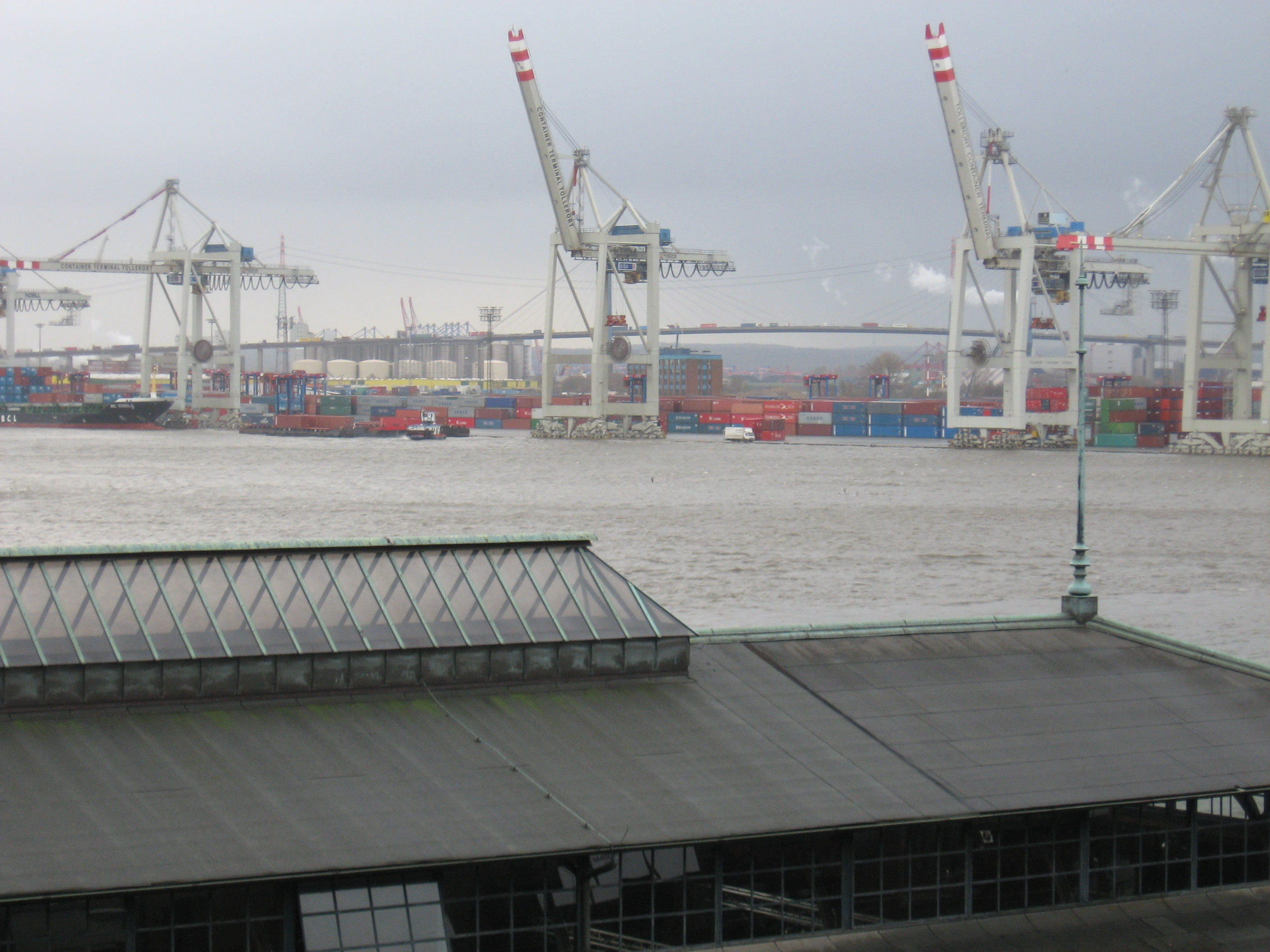 Container-Terminal-Tollerort (Hamburg) at the peak of highwater, Elbe river